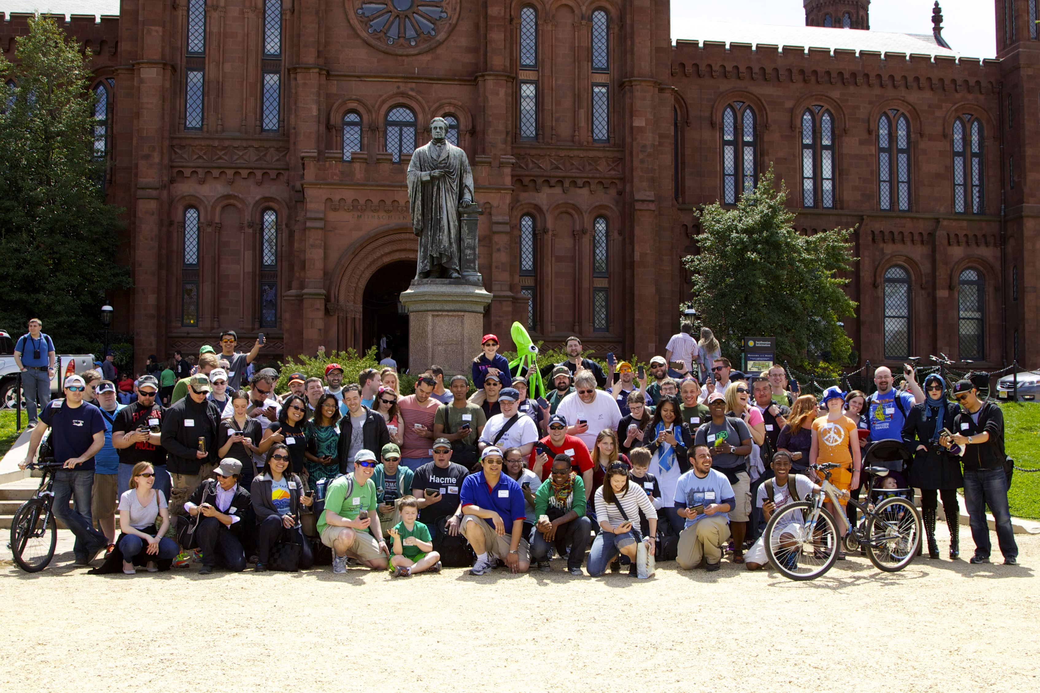 A very large, co-ordinated Ingress portal hunt convenes in central Washington, D.C. in front of the Smithsonian Castle; both the Enlightened and Resistance factions participated.